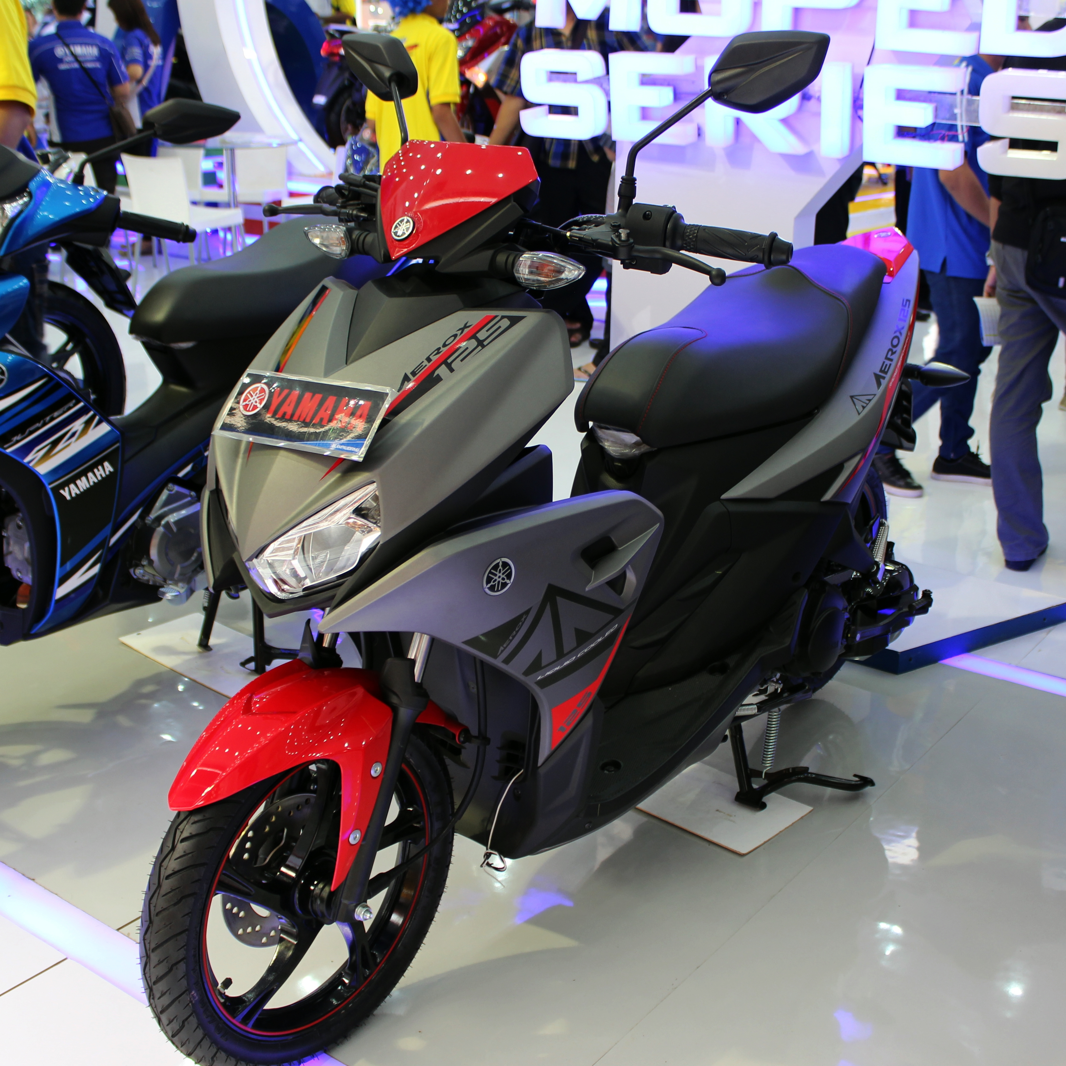 A Yamaha Aerox 125 LC photographed in Jakarta Fair 2016, Jakarta, Indonesia on June 21, 2016.